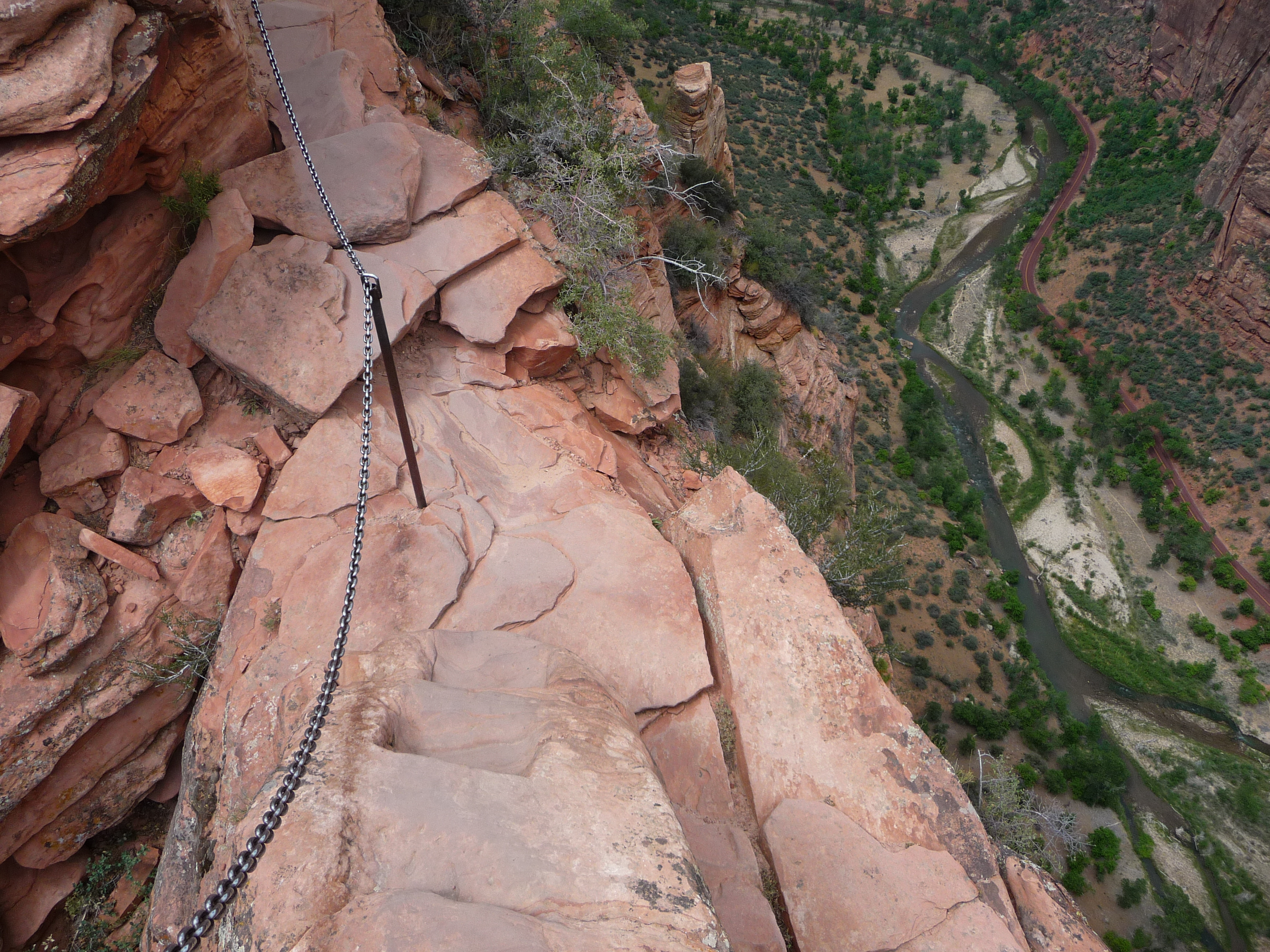 The trail on Angel's Landing, showing how narrow the trail is and how close to the steep cliff edge.